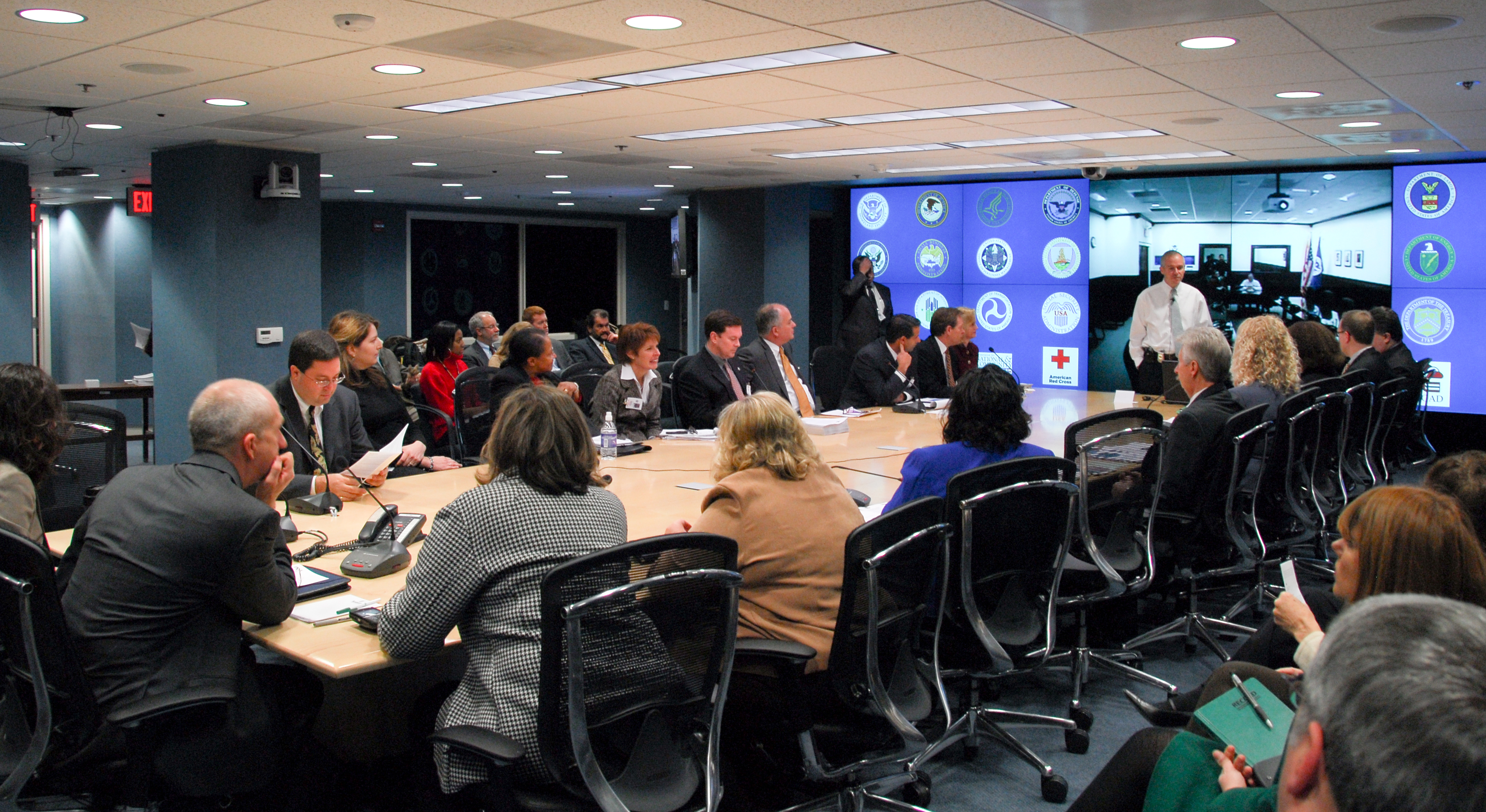 Washington, DC, December 6, 2007 -- The Public Relations Society of America visited FEMA headquarters to give a workshop to FEMA Public Affairs and External Affairs Officers. FEMA/Bill Koplitz